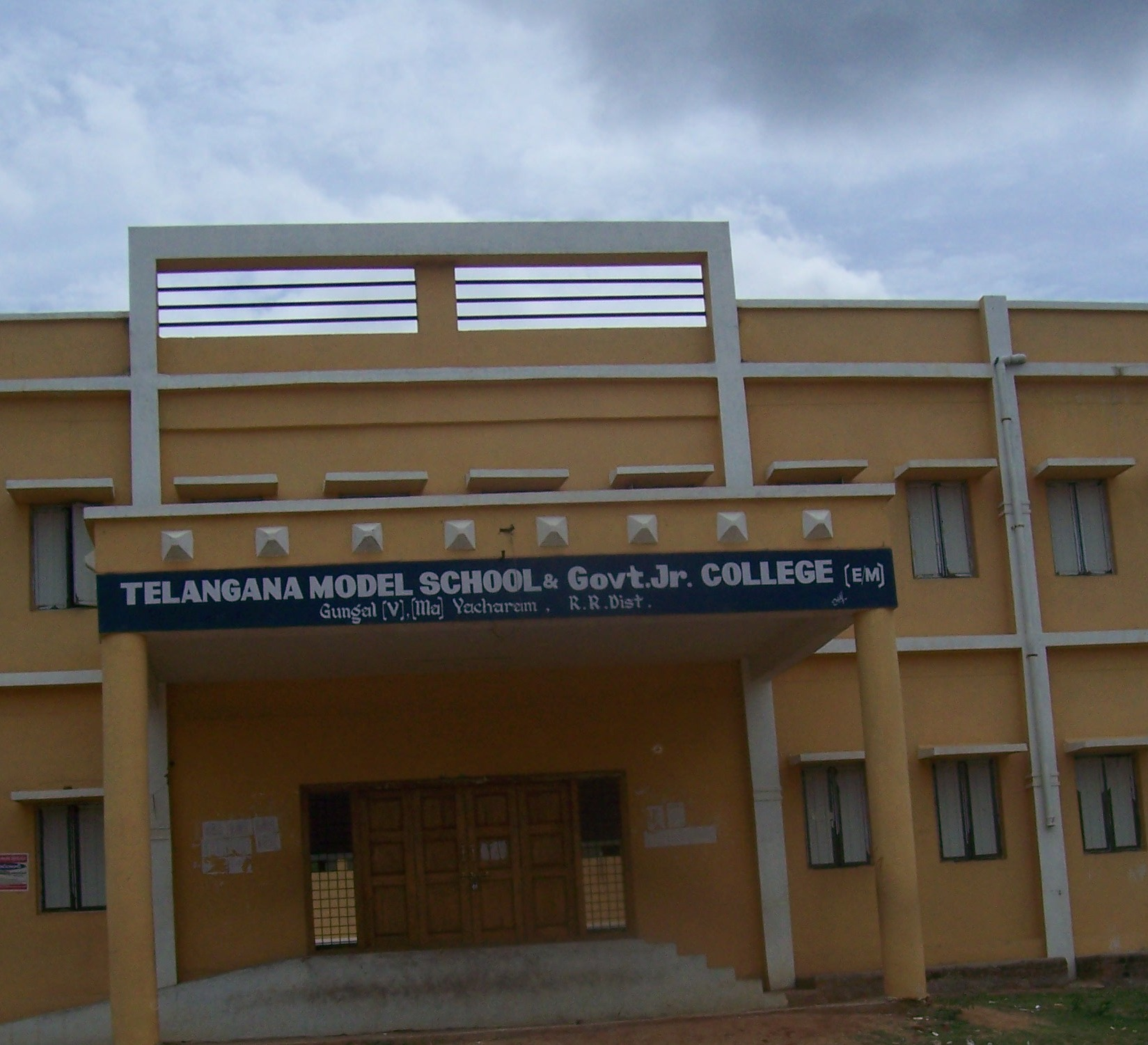 Govt. jr.college, yacharam, Ibrahimpatnam mandal.